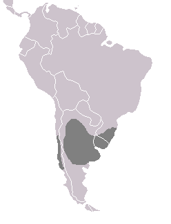 Distribution of Black-headed Duck (Heteronetta atricapilla). Distribution from "Encyklopedia. Ptaki".